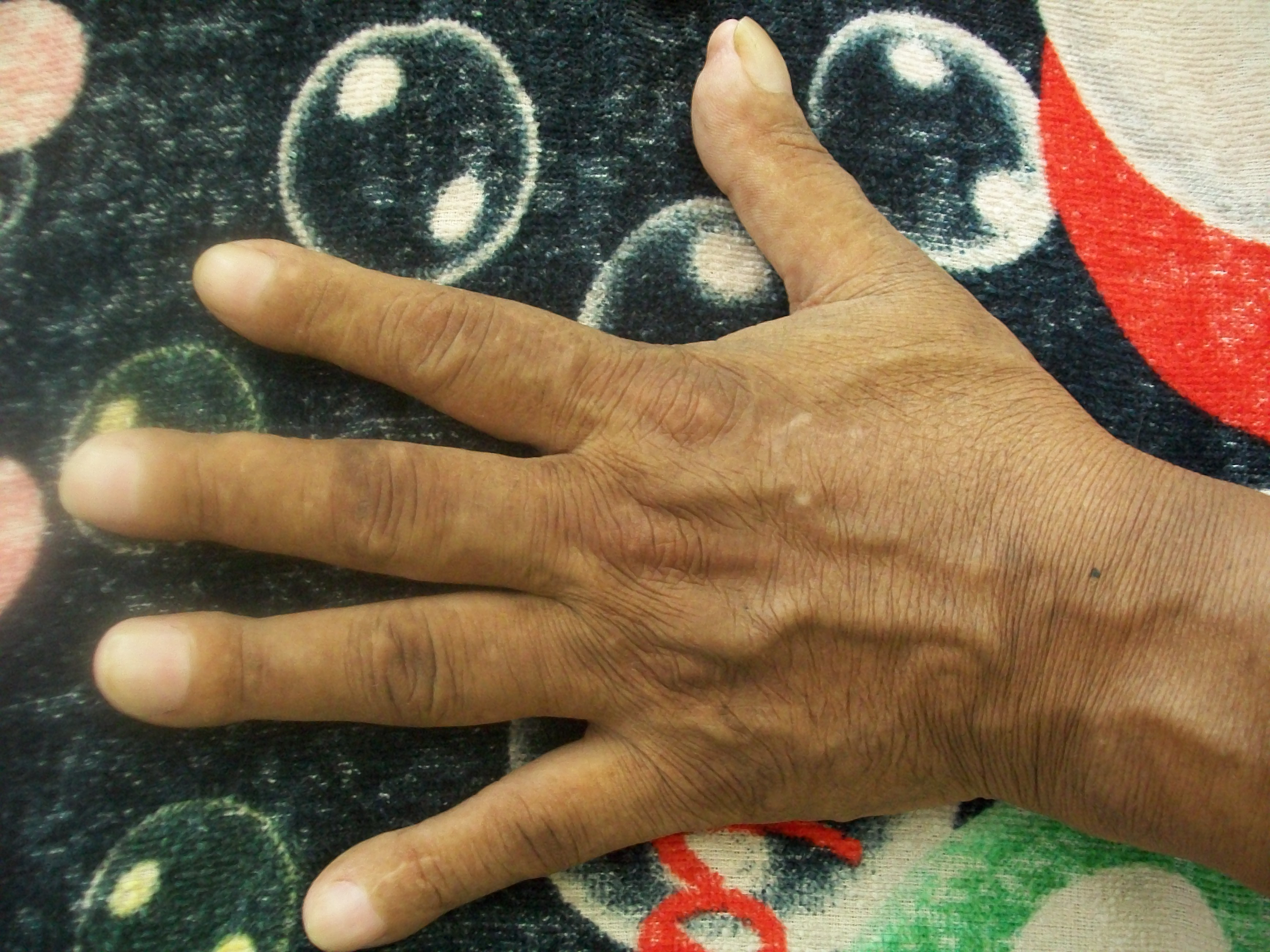 Digital clubbing (Grade III/IV) in a 51 year-old male patient with chronic heart disease and emphysema.